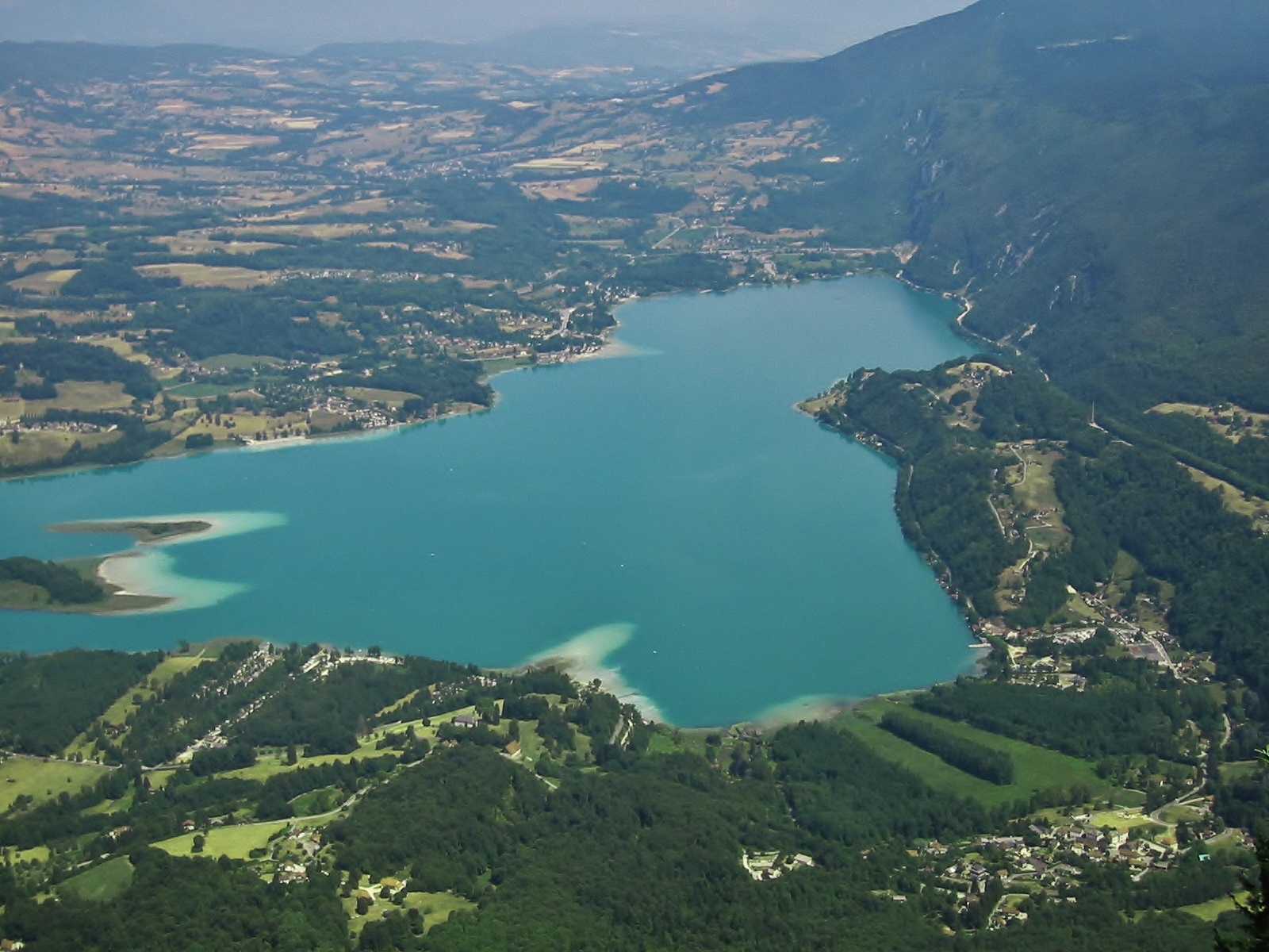 Sight from the Mont Grêle mount, of the lac d'Aiguebelette lake, in Savoie, France.